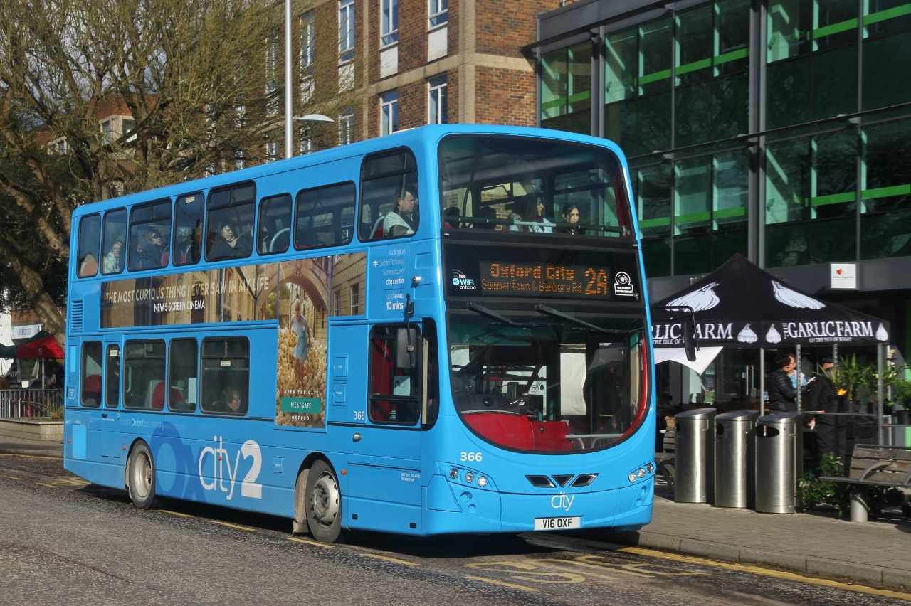 An Oxford Bus Company bus on route 2A at Summertown Parade, Banbury Road, Oxford. The bus is a Volvo B5LH with a Wright Eclipse Gemini 2 body, registration mark V16 OXF, fleet number 366.